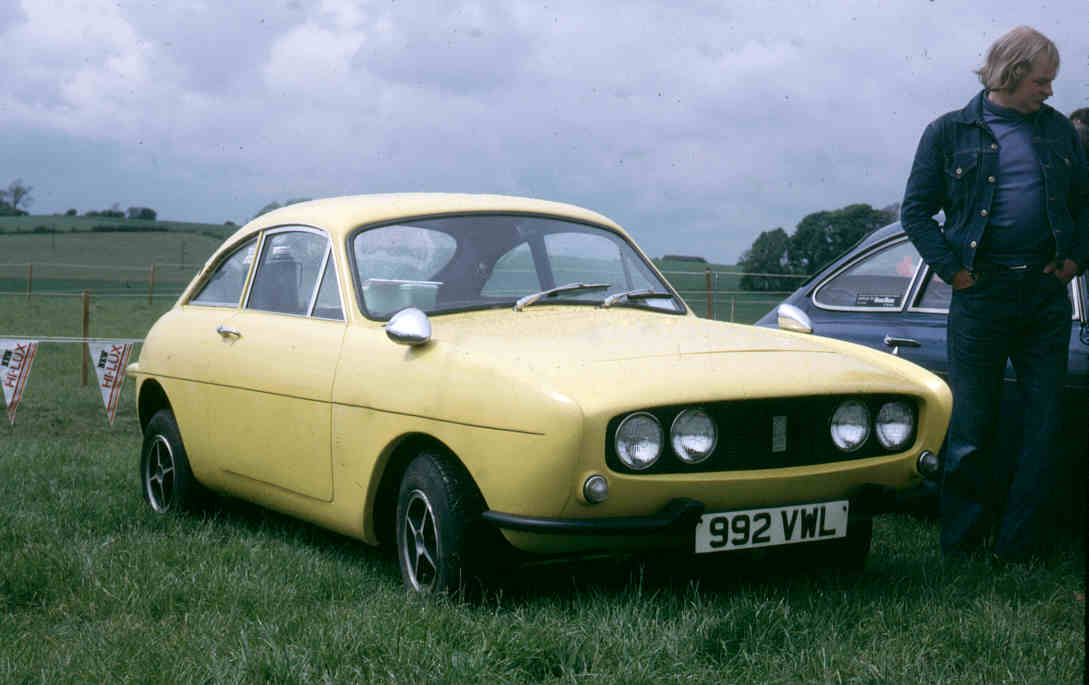 An Ogle SX1000 photographed by me in 1980